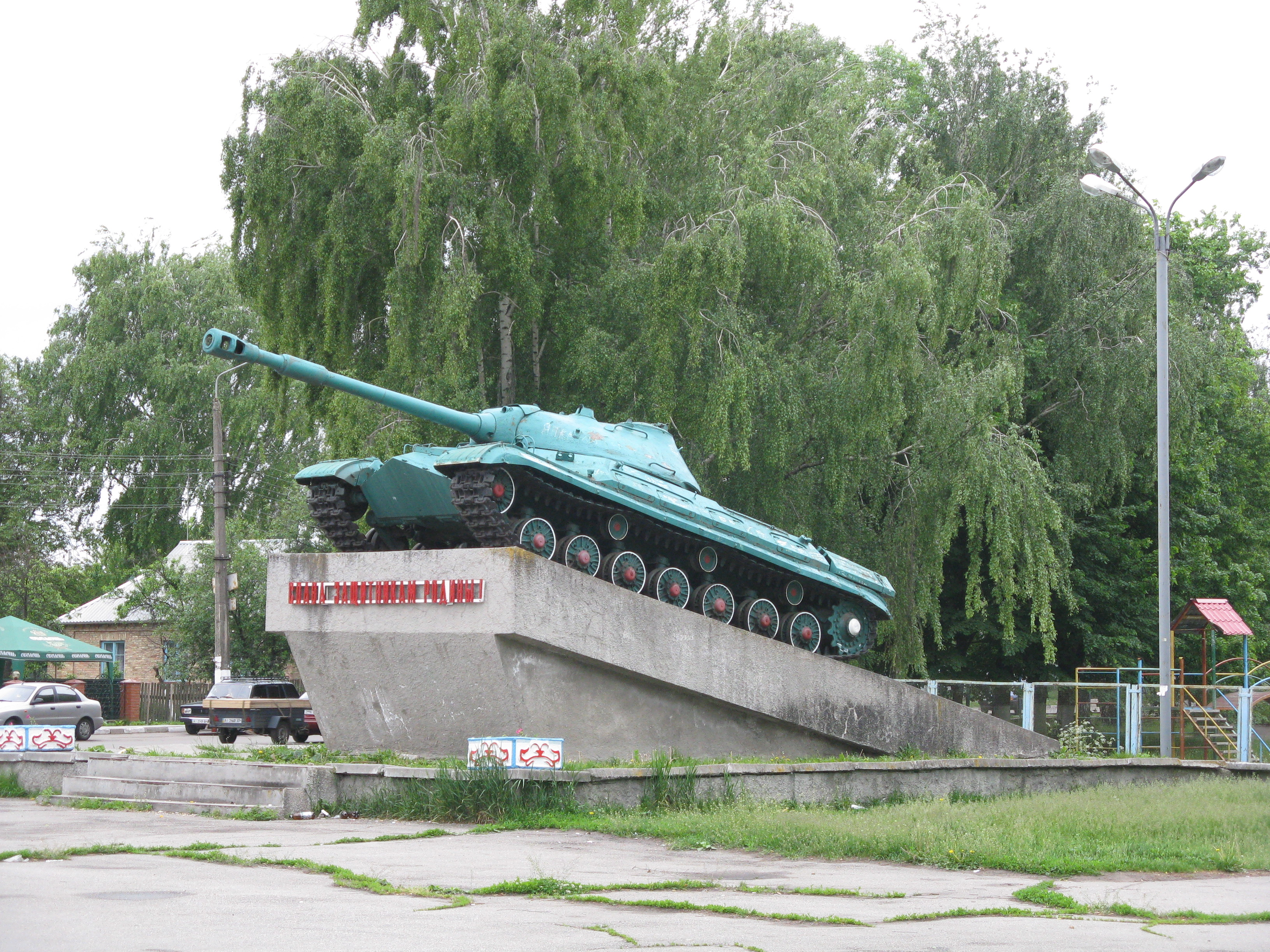 T-10А, fixed on the pedestal in Kagarlyk, Kiev